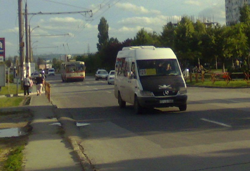 Mercedes-Benz Sprinter Mk1 van in Chişinău, Moldova. Unidentified trolleybus.